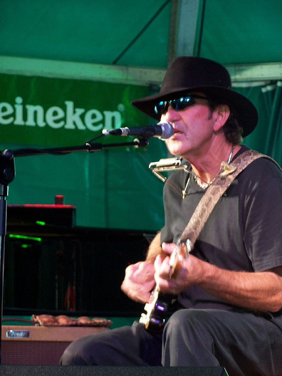 Tony Joe White playing during the 2005 Jazzaldia Festival in Sebastián San Sebastián.